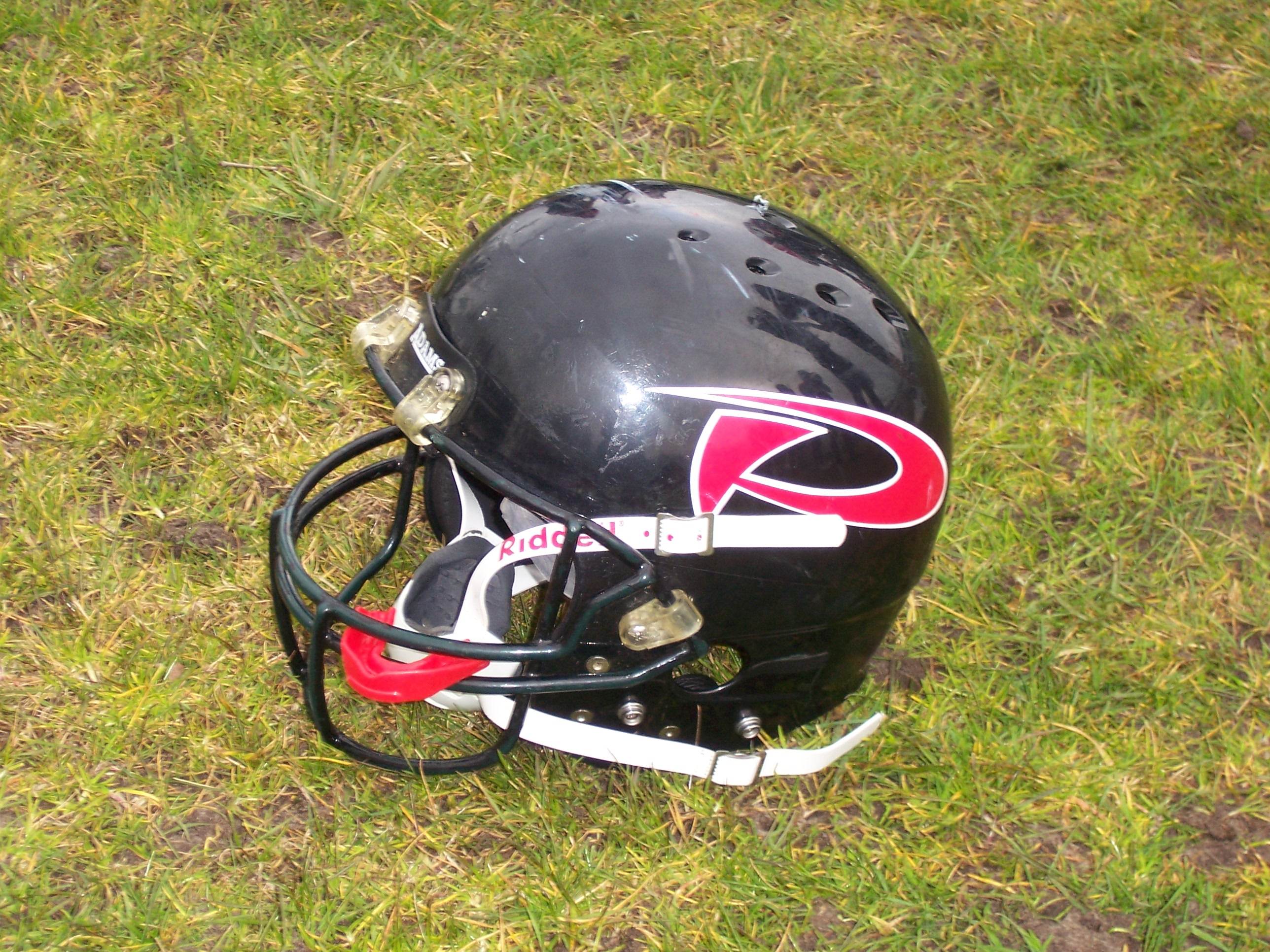 helmet L'Hospitalet Pioners 2009